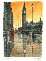 Big Ben on a rainy evening in London by Stephen Wiltshire MBE Pen, ink and pastel on paper, original size 420 x 594mm Date: 9th of June 2008